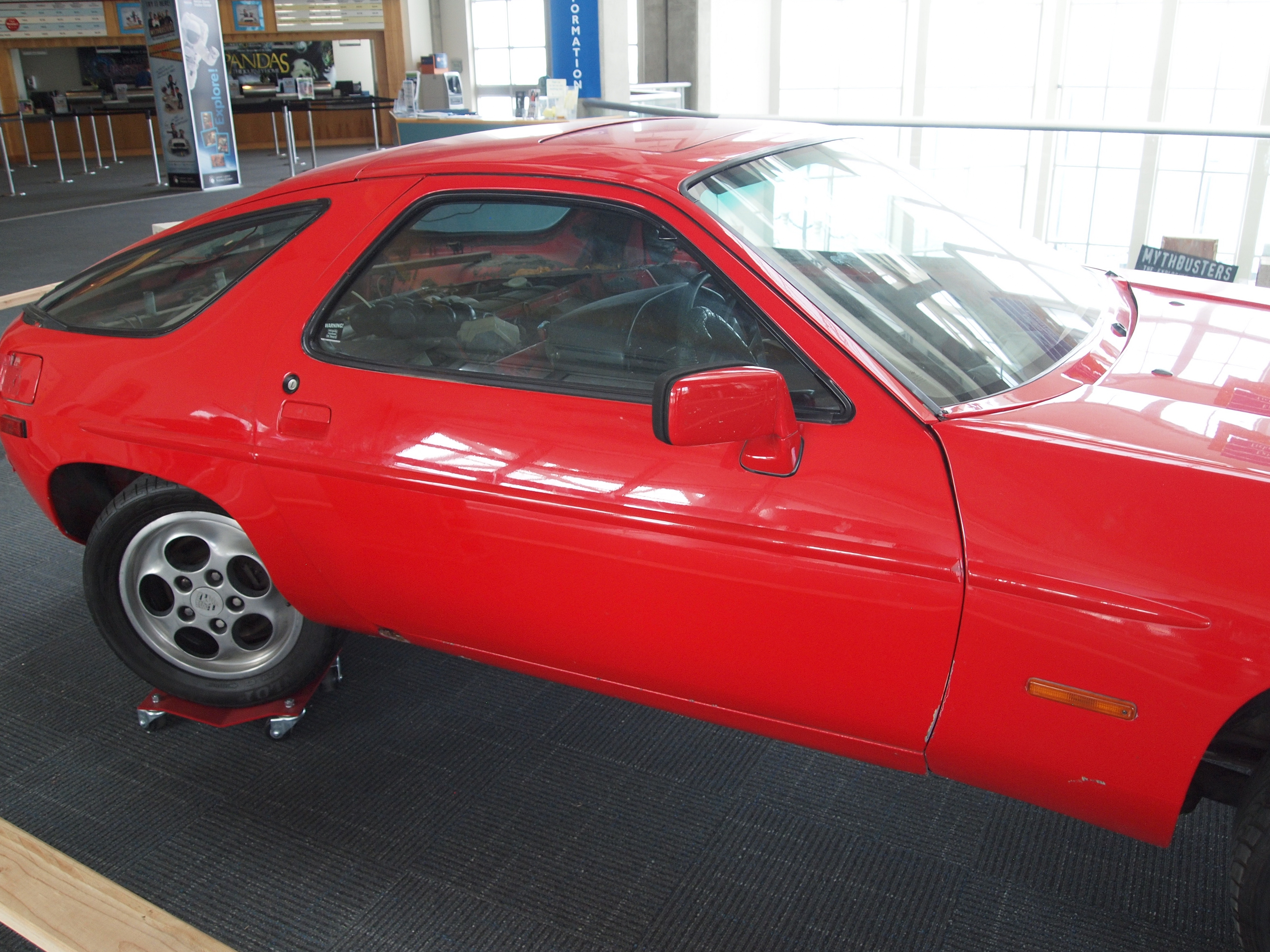 MythBusters Reverse Engineering